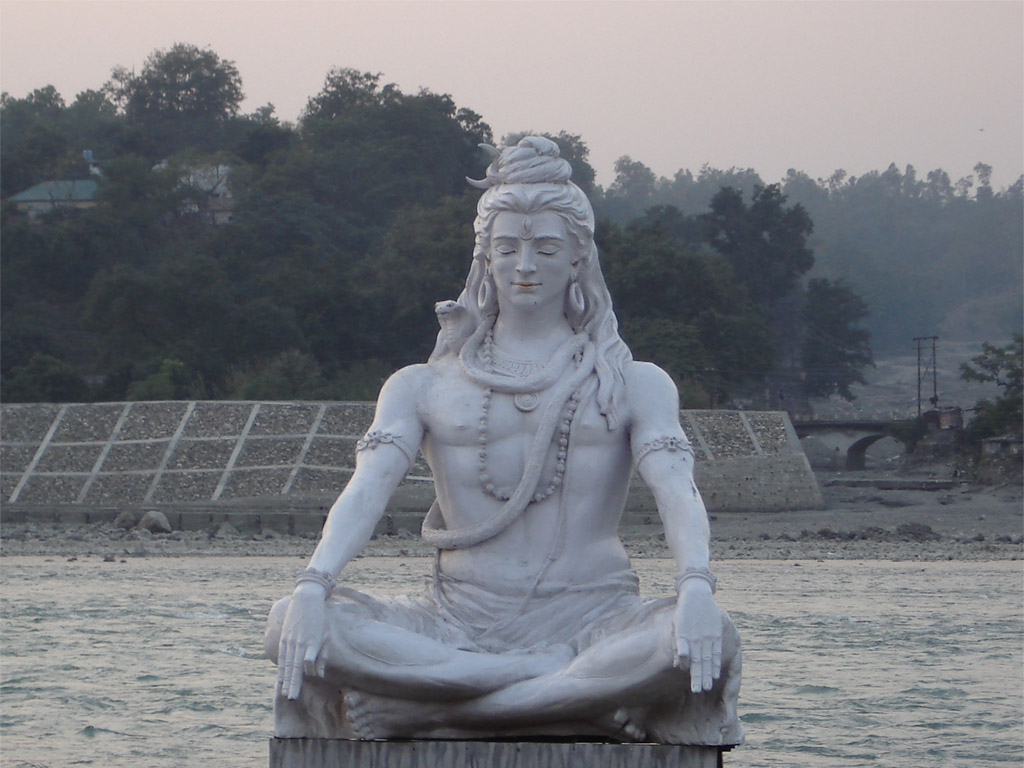 statue of Shiva in Haridwar, India